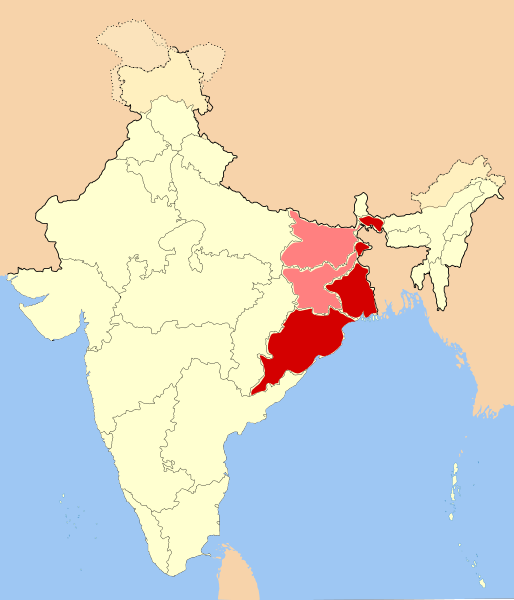 Location of states in the cultural and political sphere of East India